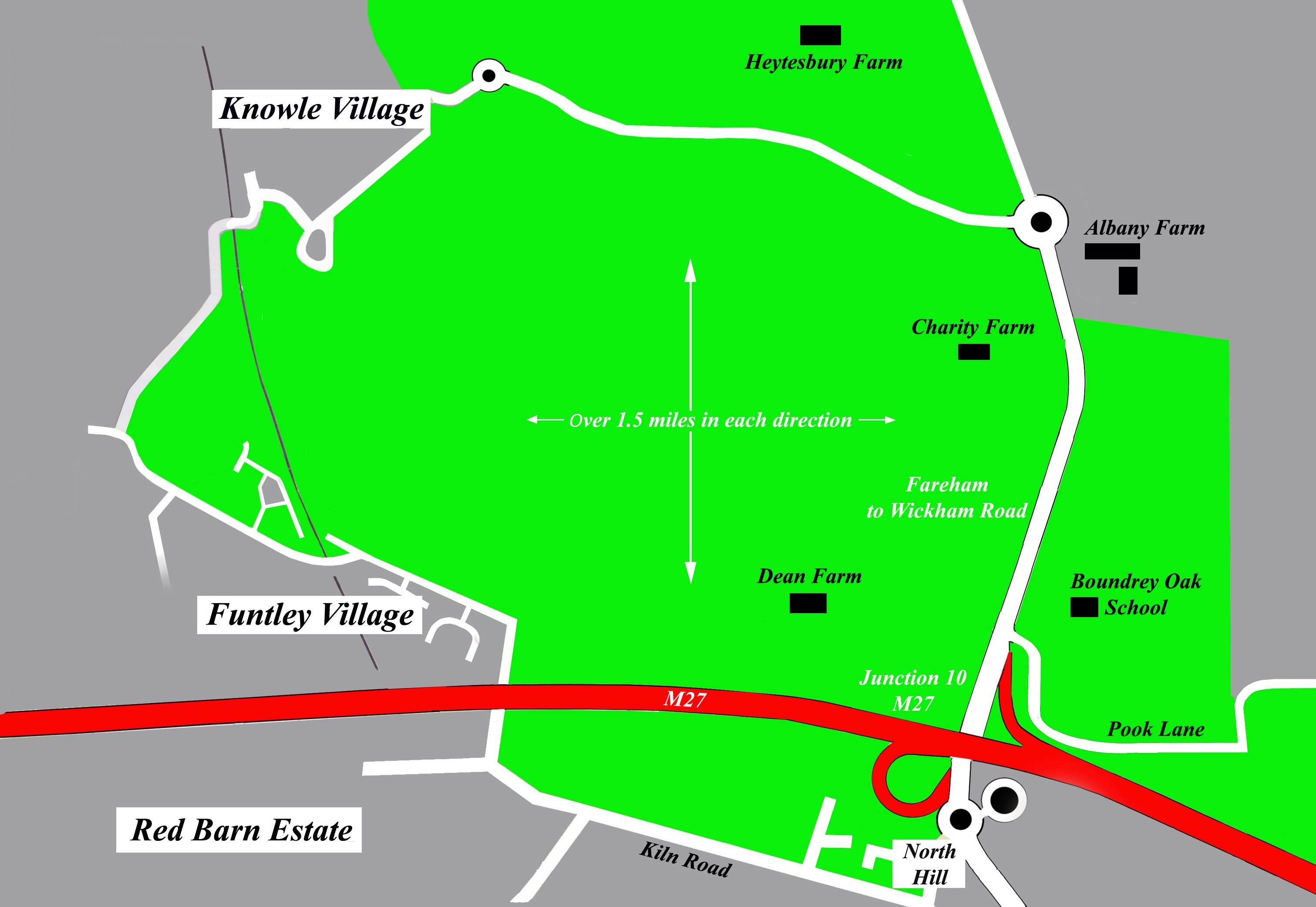 Map of proposed Welborne development - boundaries as per latest council draft plan. The area in green is the land that Fareham Borough Council intend to turn into housing and industry.